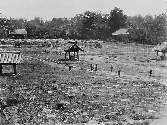 Ueno Battlefield